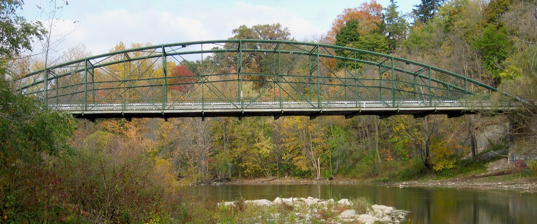 image made by author for illus. of article, Blackfriars Street Bridge